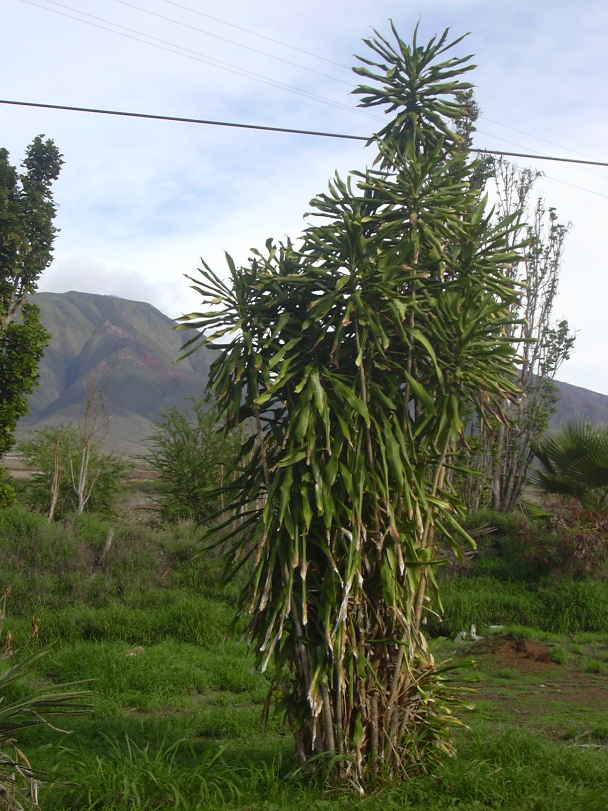 Dracaena fragrans (habit). Location: Maui, Puehuihueiki cemetary Lahaina